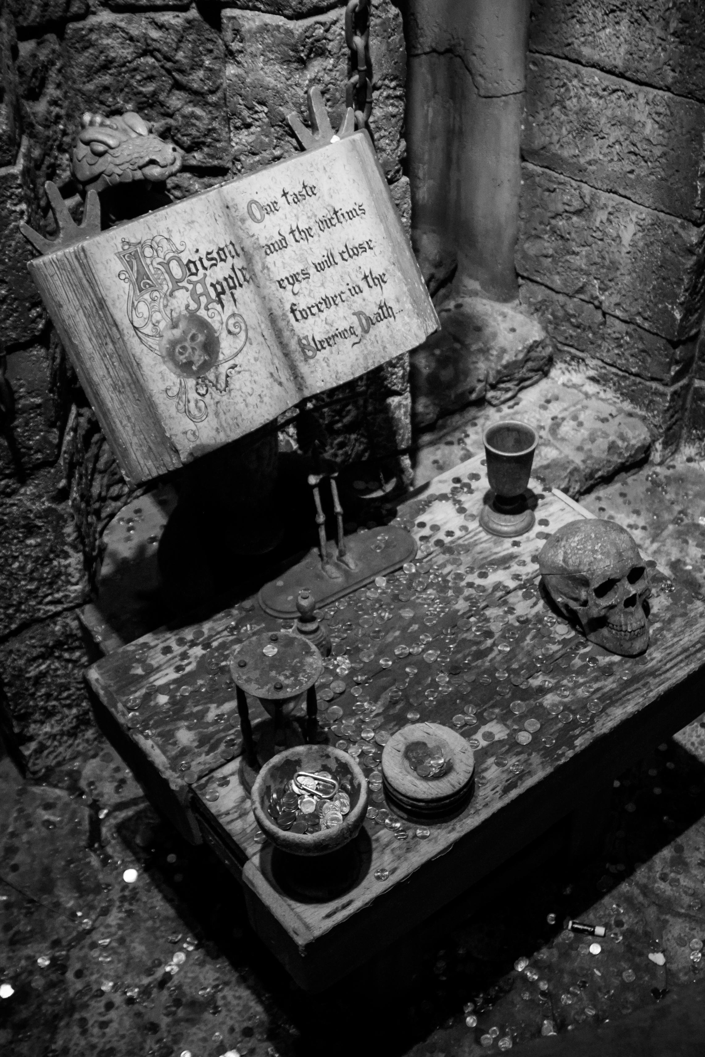 Inside Snow White's Scary Adventures in Fantasyland at Disneyland